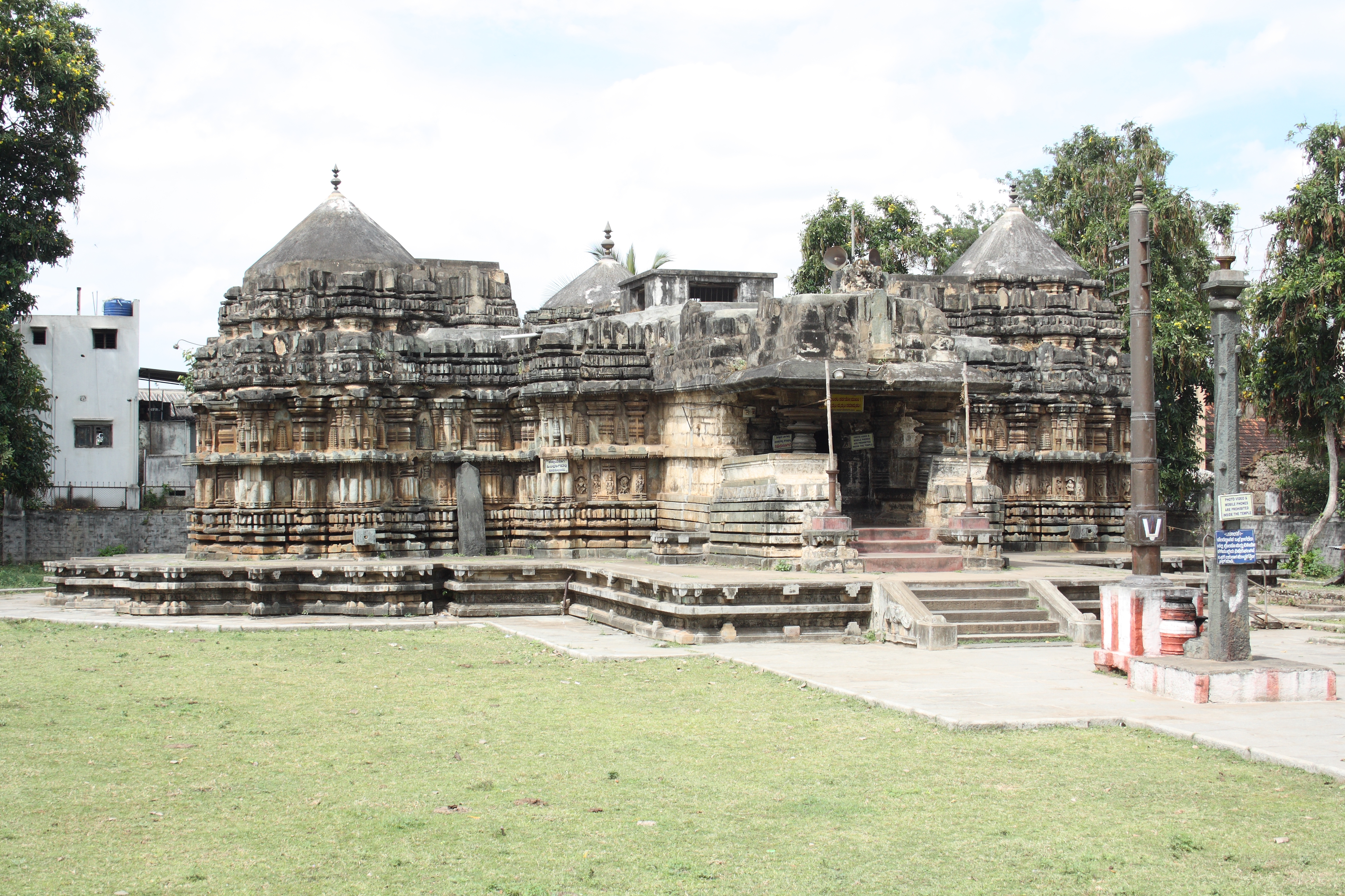 This media file is uploaded with Malayalam loves Wikimedia event - 3. Sri Lakshmi Narasimha Temple, Bhadravathi, Shimoga, Karnataka